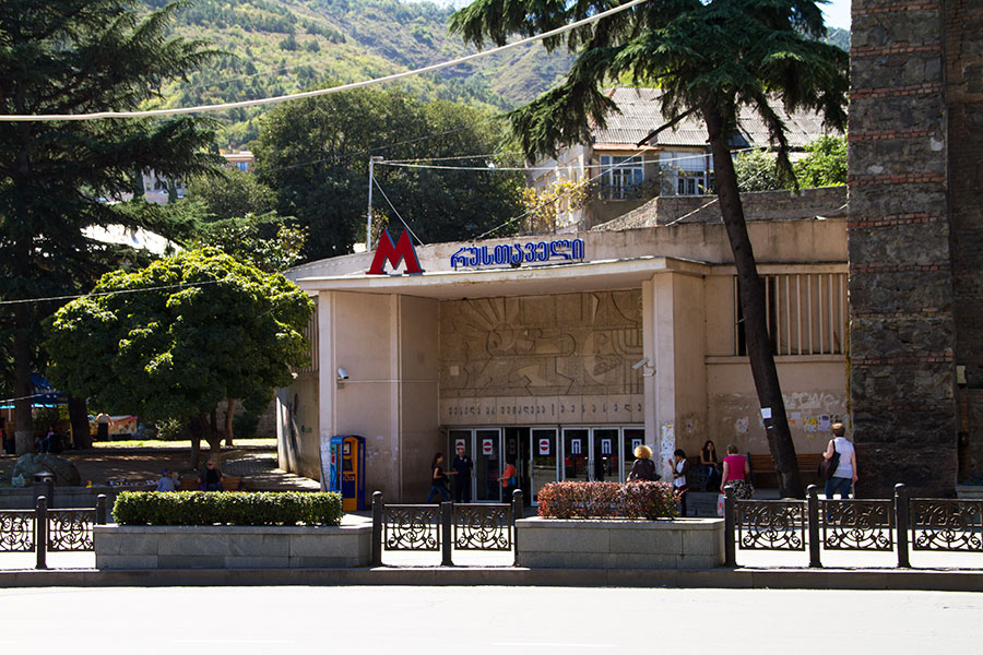 Metro Station "Rustaveli"